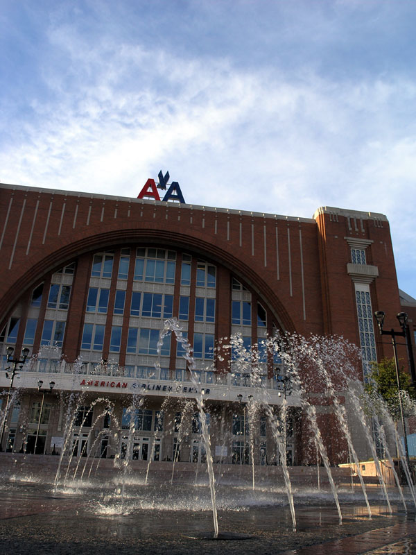 Fountains at Victory Plaza in front of the American Airlines Center in the Victory Park area near downtown Dallas, Texas (USA)